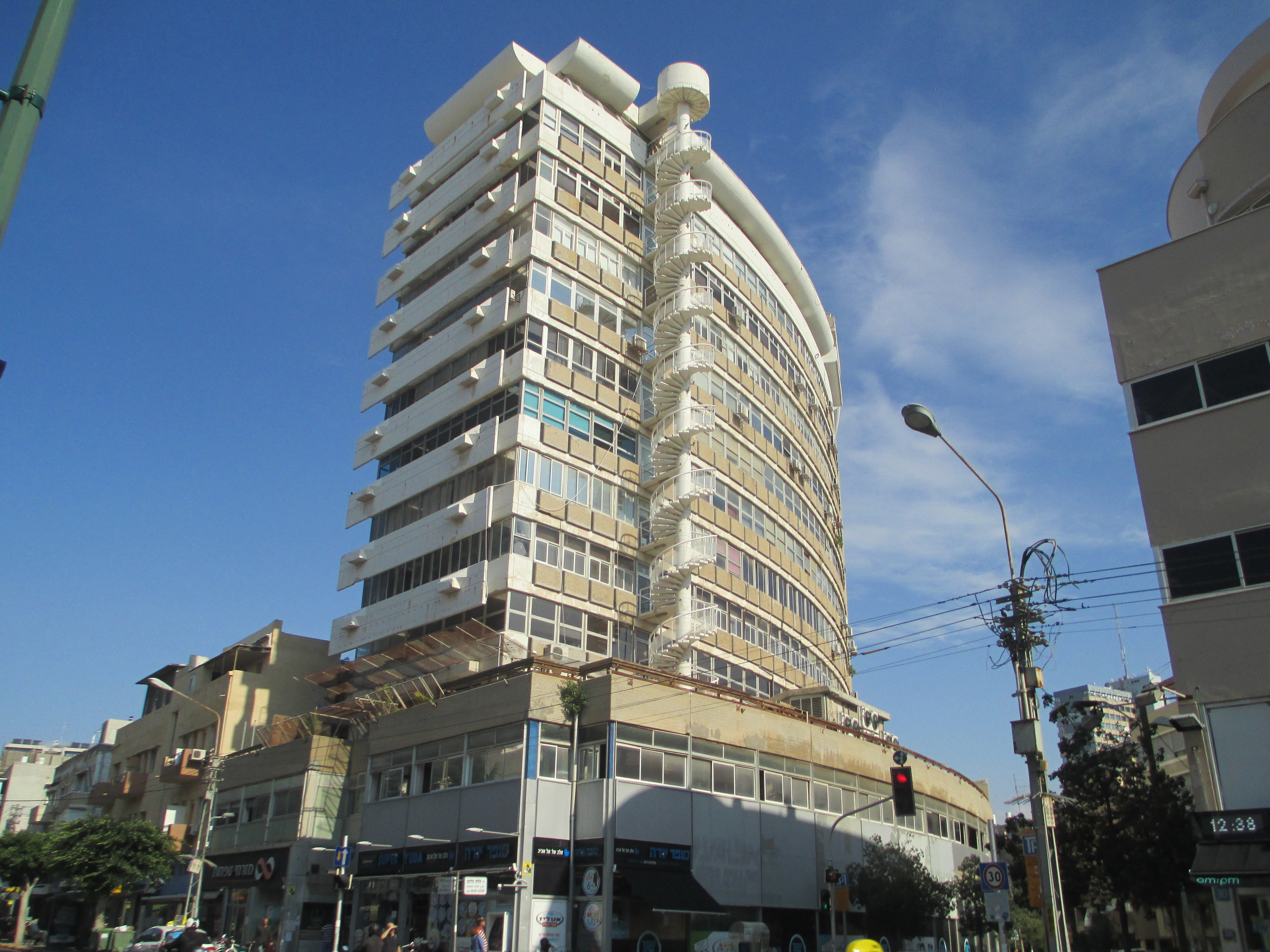 El-Al building in Tel Aviv